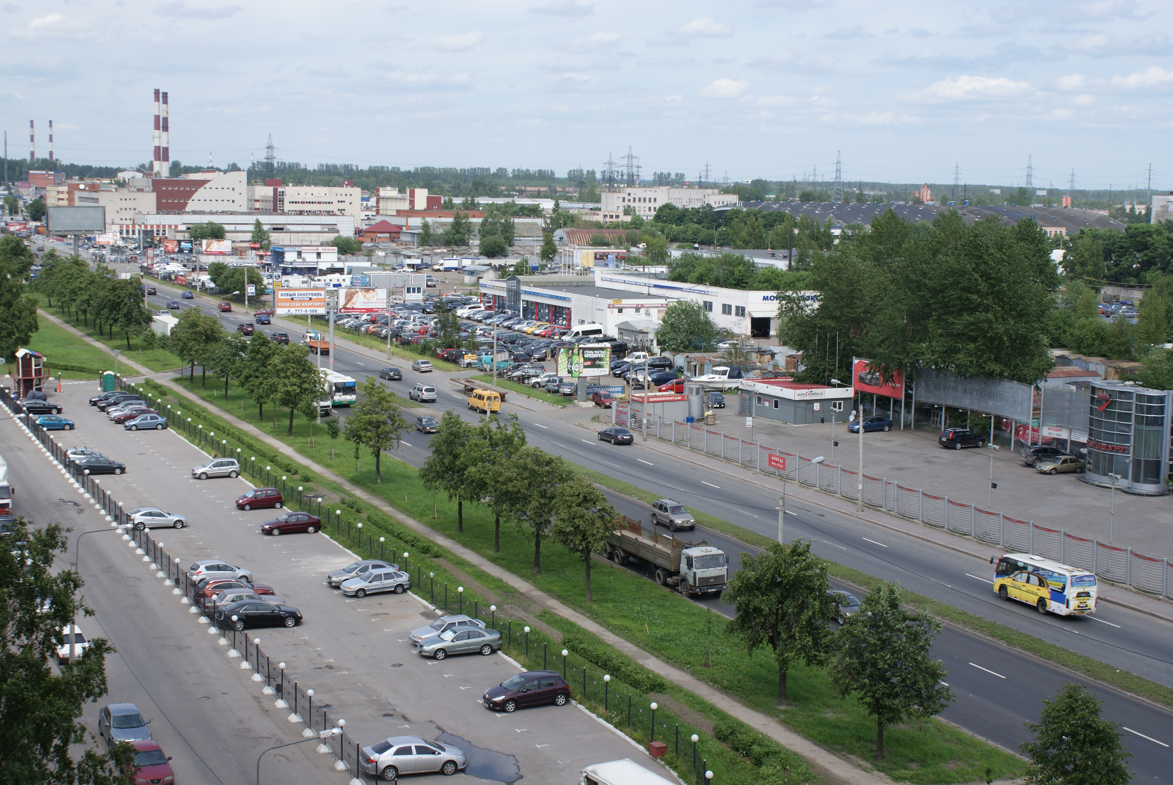 Energeticov prospect, Saint Petersburg